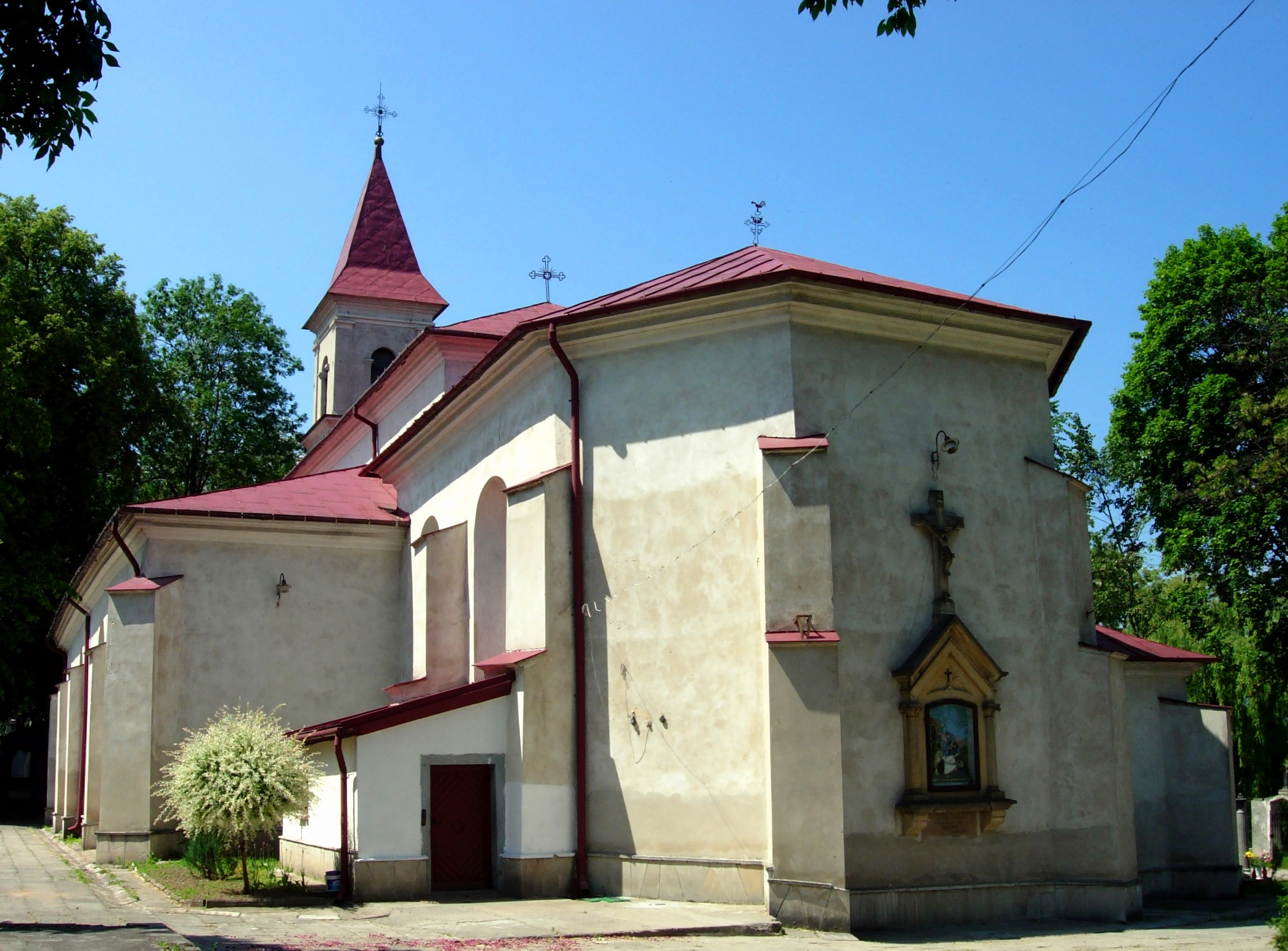 Saint Ladislaus Church in Kunów, Poland